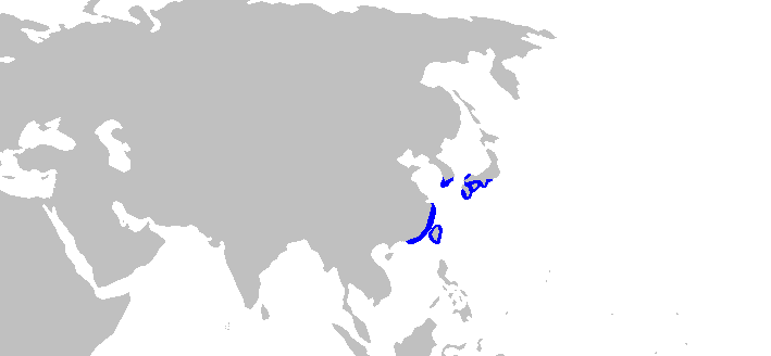 Range of the Japanese sleeper ray (Narke japonica). Based on [1]